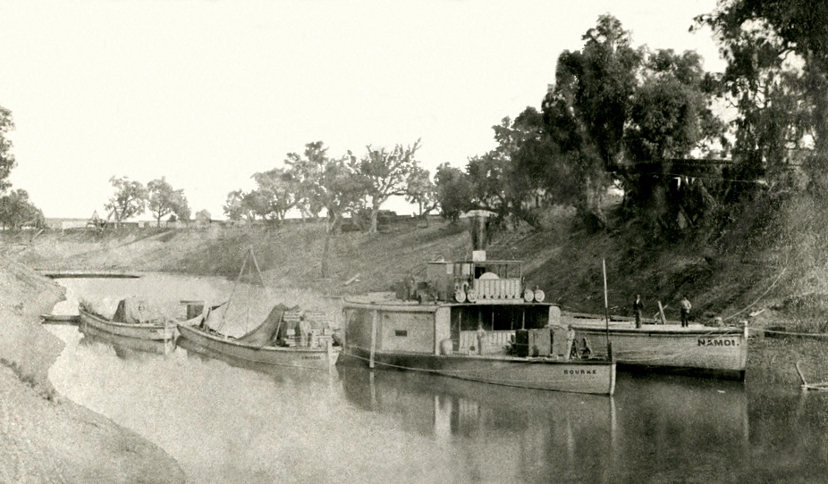 Paddle steamer "Bourke", owned by Albert Landseer, tied up in the Darling River alongside the large barge "Naomi" and with barges "Elfie" and "Empress" adjacent.